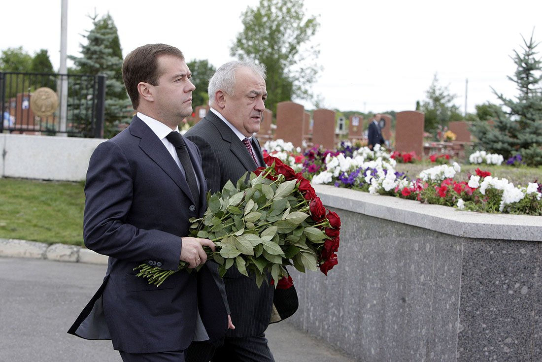 VLADIKAVKAZ, NORTH OSSETIA. The President laid flowers at the Tree of Sorrow monument in memory of the victims of the Beslan tragedy. With head of Republic of North Ossetia-Alania Taimuraz Mamsurov.